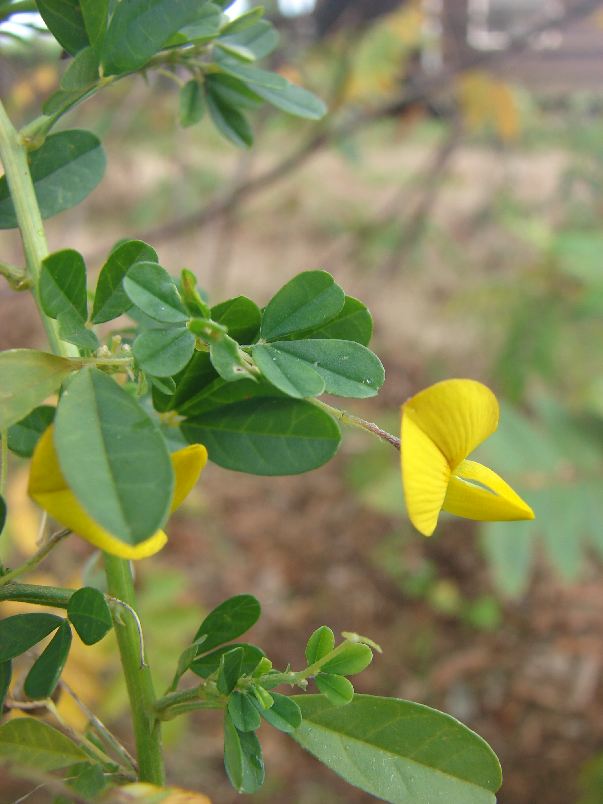 Crotalaria pumila (leaves and flowers). Location: Maui, MISC Piiholo